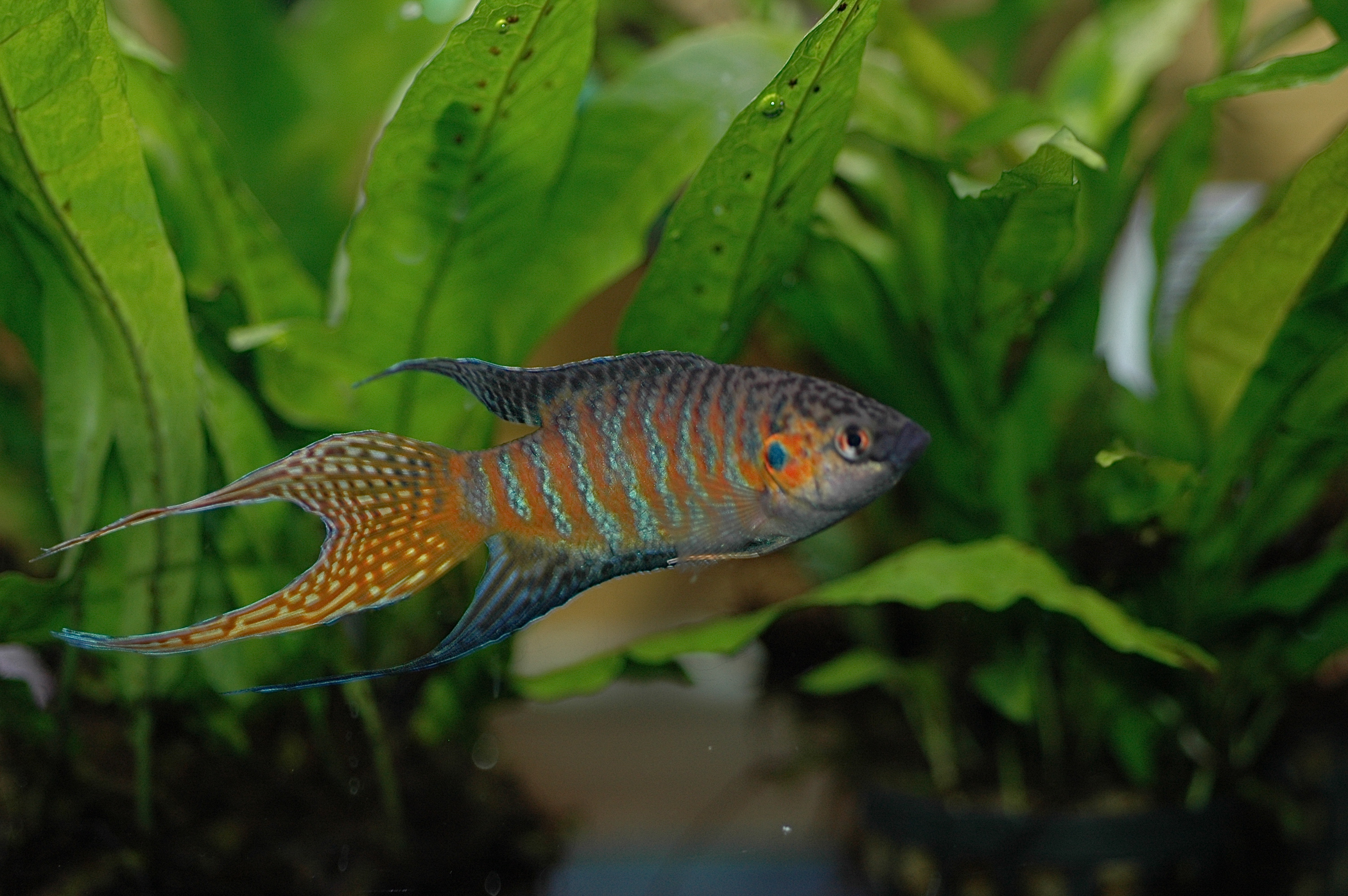 Paradise fish Macropodus opercularis, male, in an aquarium.